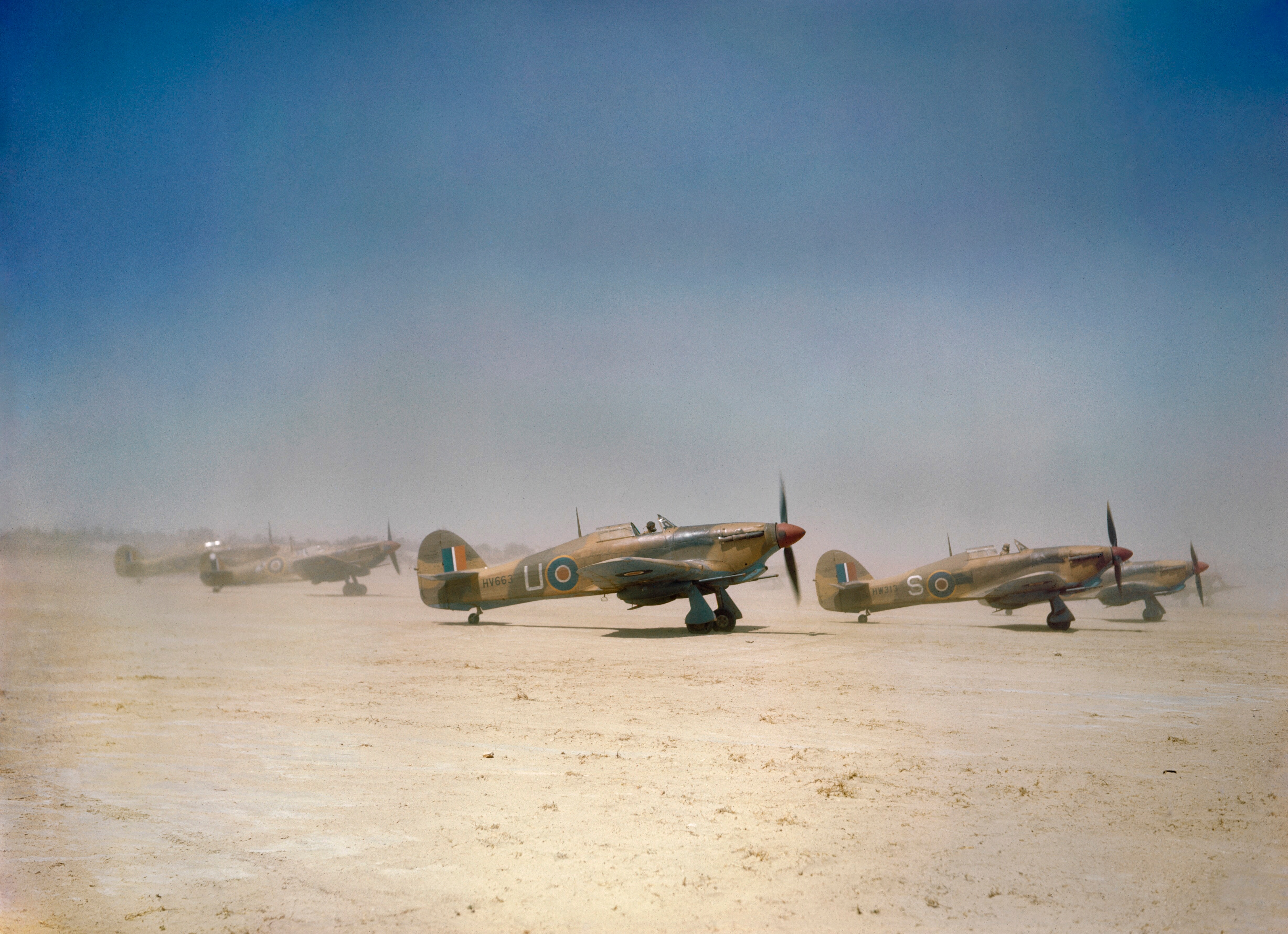 Hawker Hurricane Mk.IIDs of No. 6 Squadron, Royal Air Force, rolling out at Gabes, Tunisia, airfield soon after noon on 6 April 1943 for a tank-busting raid.